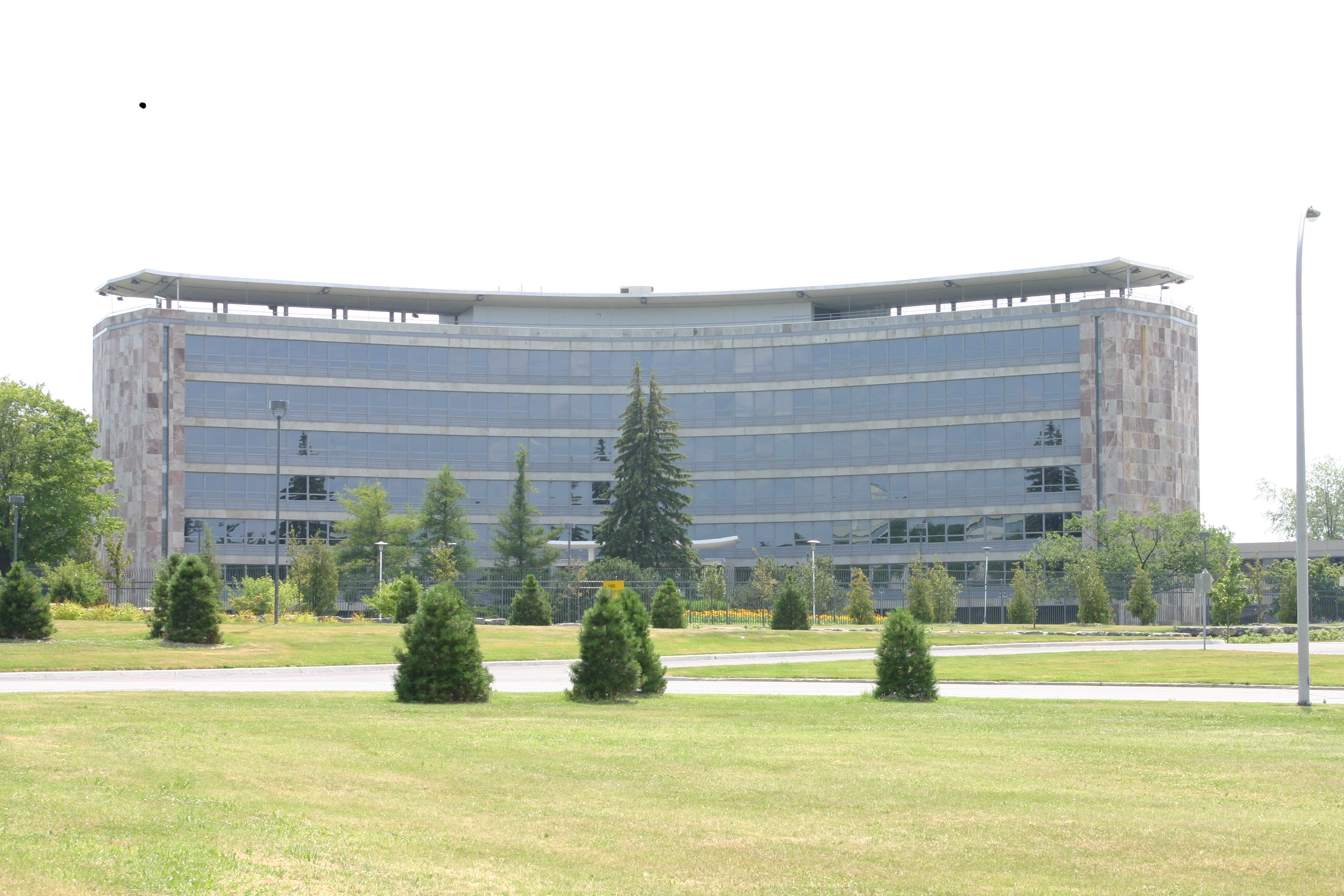 The Edward Drake Building at 1500 Riverside Drive, Ottawa, Ontario.